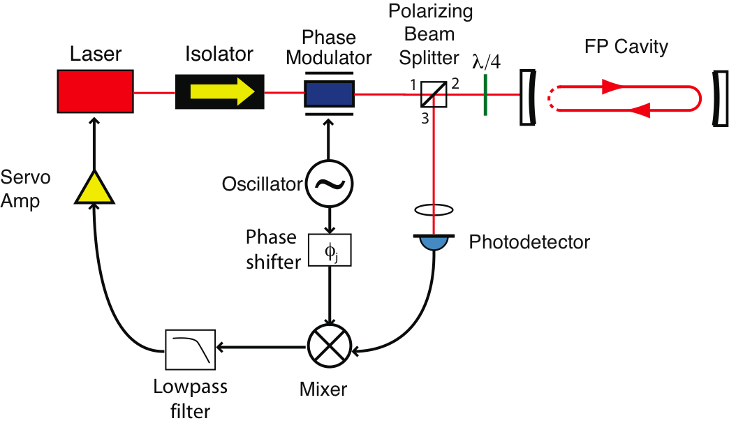 "Basic schematic layout of Pound-Drever-Hall laser locking control loop"